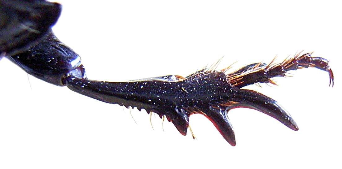 Front leg of beetle Scaritinae from above